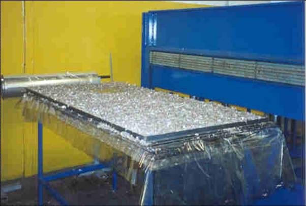 Roof tile production